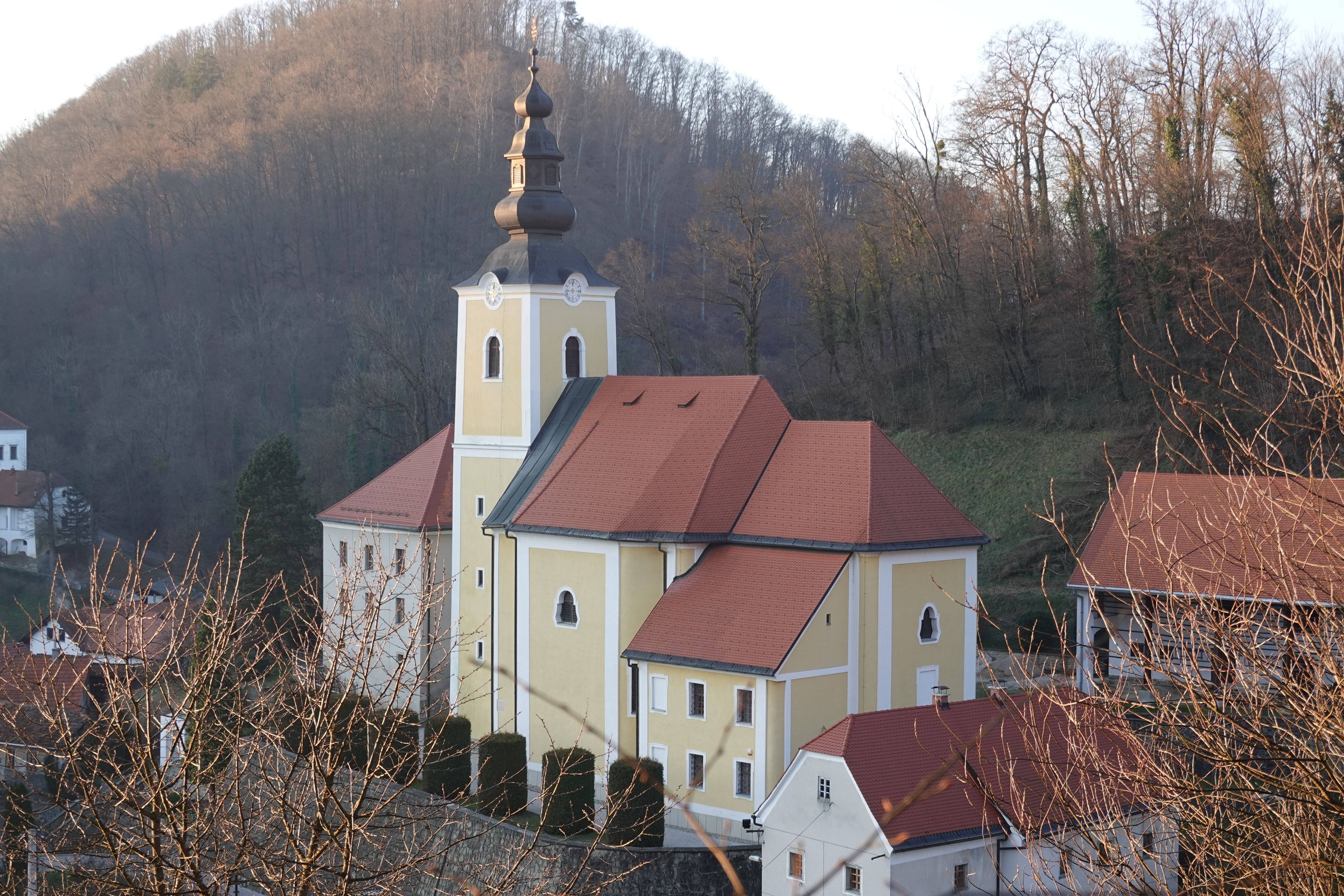 Rogatec